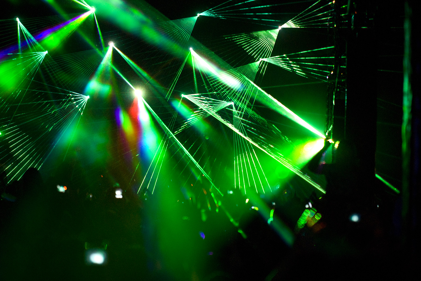 Groove Armada performing at Big Day Out 2010, Melbourne